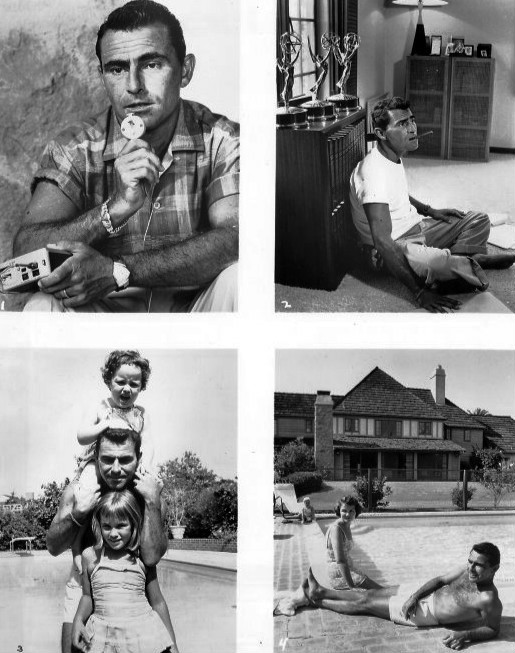 Photos of Rod Serling and family issued for the premiere of the television program The Twilight Zone. The photos depict him working on a script with a dictating machine, relaxing at home, with his two daughters at the pool at his home and at the pool with his wife, Carol.